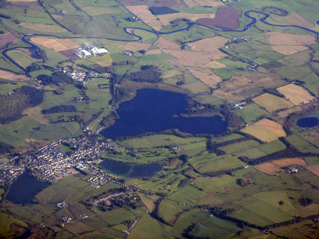 Lochmaben - aerial view, retouched for colour balance by hchc2009